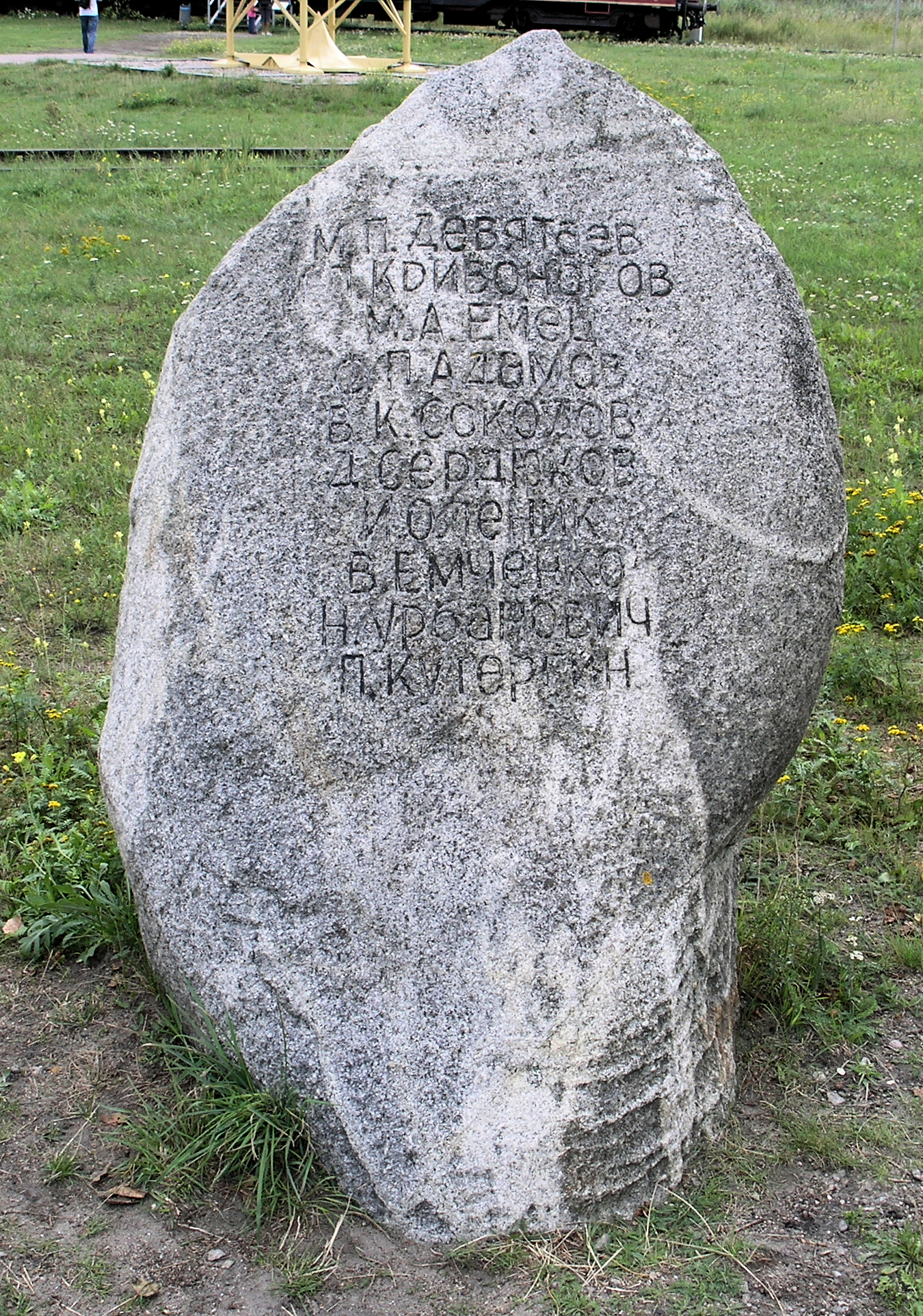 Memorial stone, Michail Petrowitsch Dewjatajew, Ostseestraße, Peenemünde, Germany